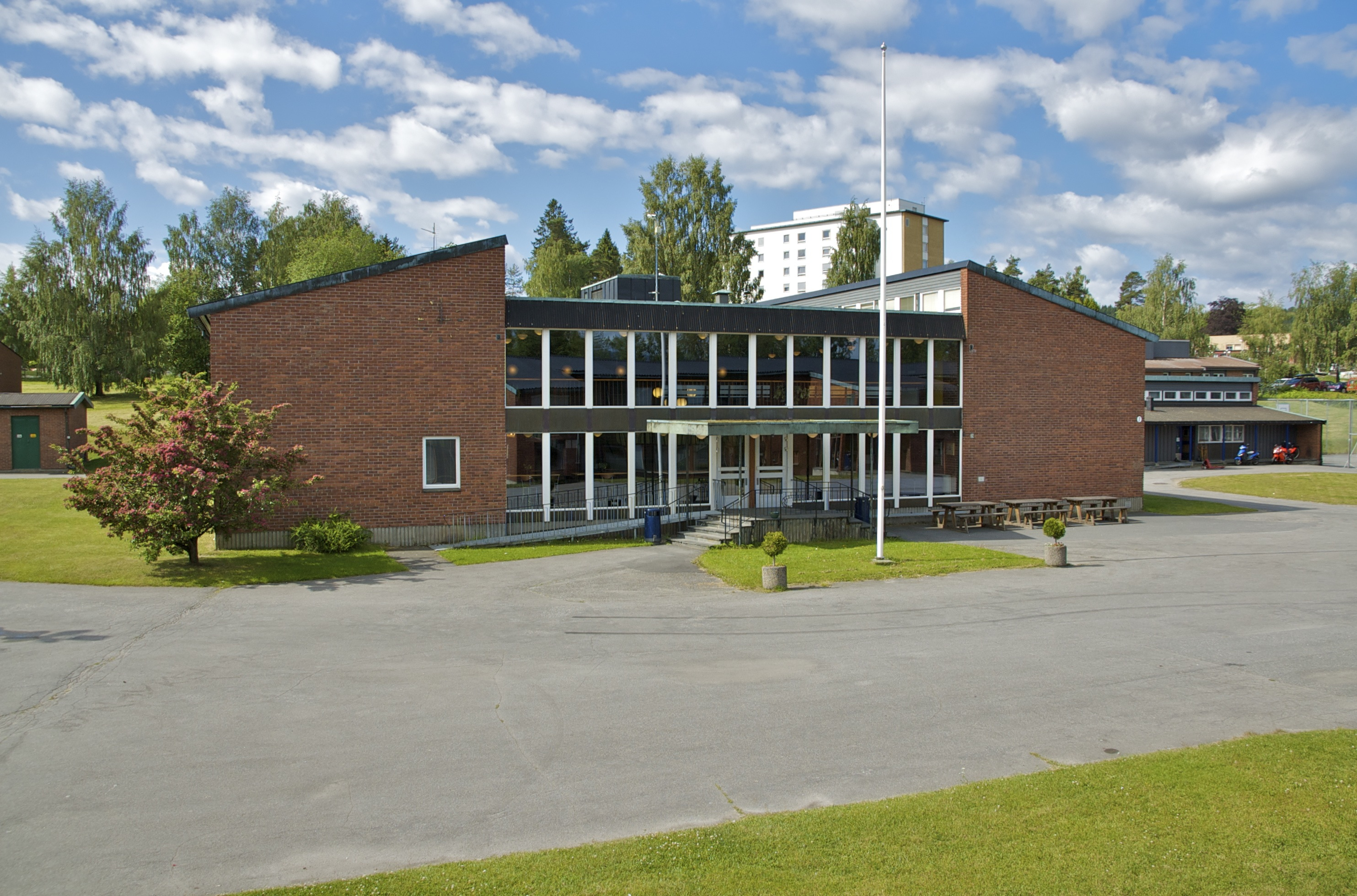 School building in Skien, Norway (Hjalmar Johansen videregående skole, Klosterskogen).